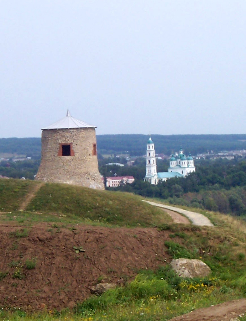 The medieval devil tower (Şaytan qalası) in Yelabuga (Tatarstan)